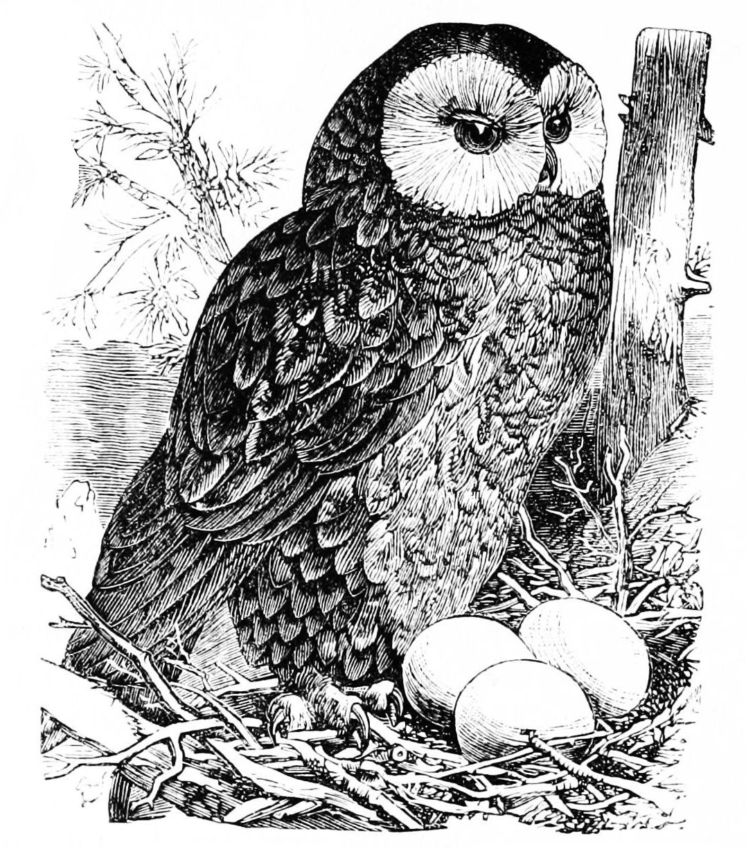 The tawny owl of Europe